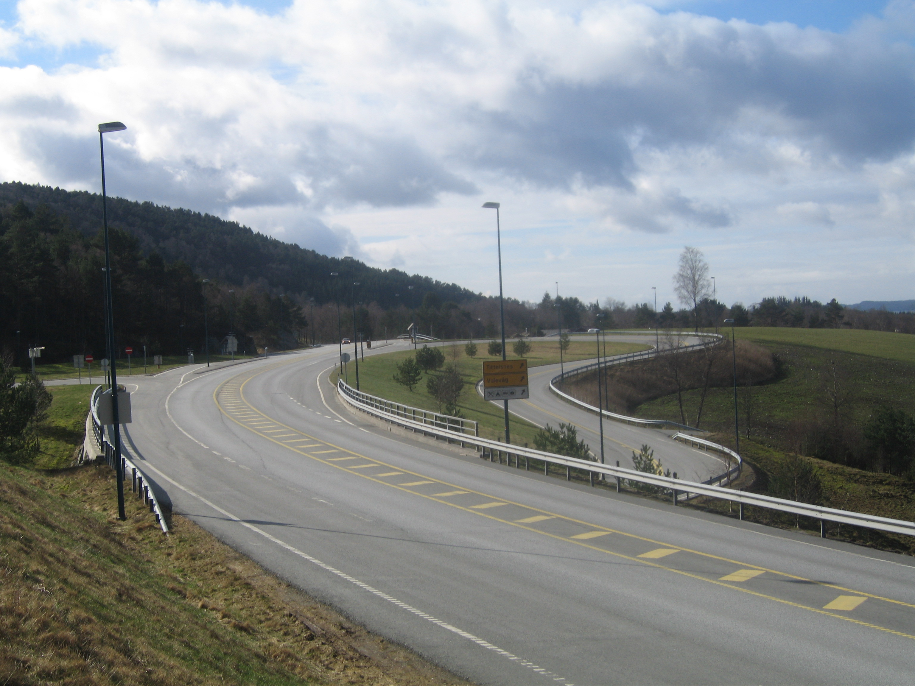 First crossroads of E39 south of Bømlafjordtunnelen